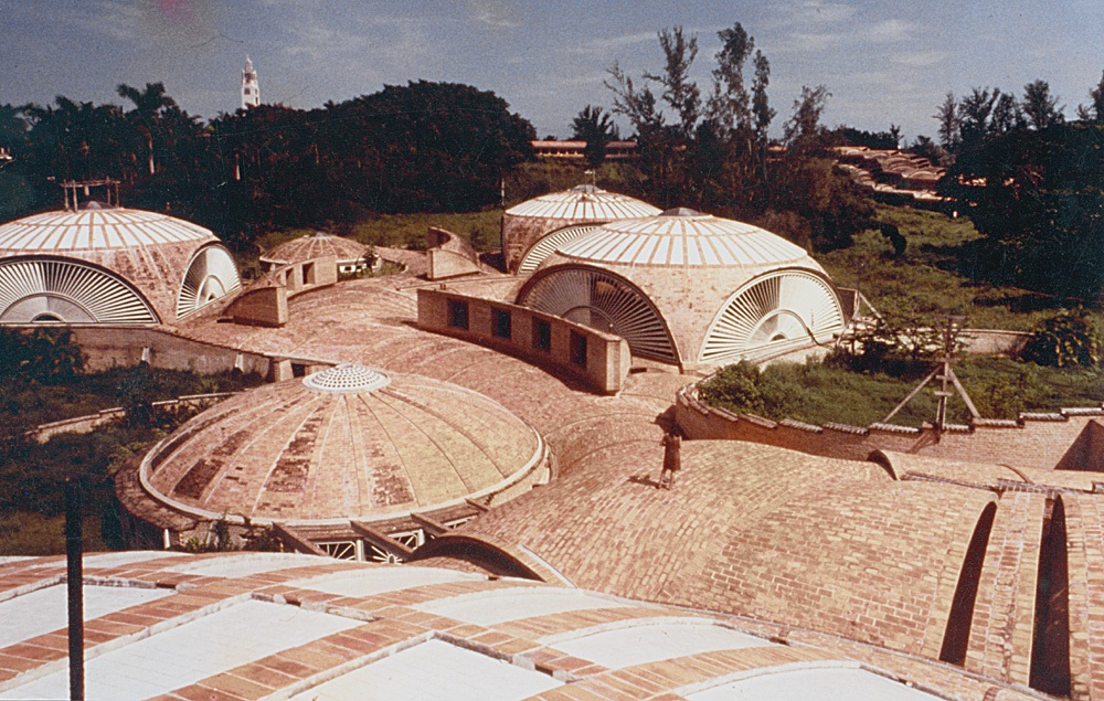 Vittorio Garatti, School of Ballet, Escuelas Nacional de Arte (1961-65)